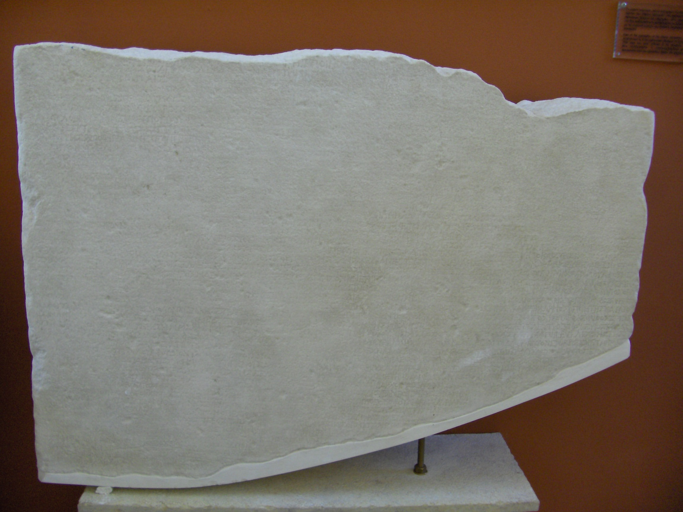 The Parian Chronicle. A Greek chronological table, covering the years from 1581 BC to 264 BC, inscribed on a stele. This is plaster cast from the fragment at the Ashmolean Museum (more info). Exhibit A26 at the Archaeological Museum of Paros.